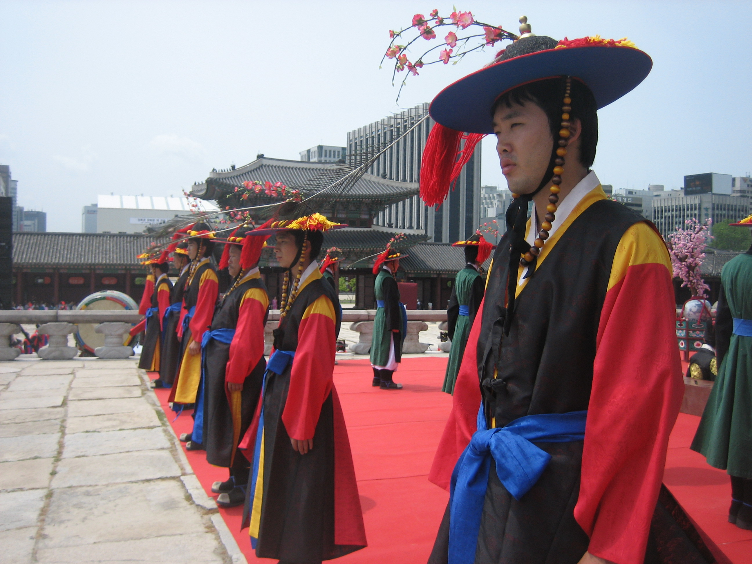 Representation of King Gojong's 41st birthday party on May 23 to 25, 2008 at Gyeongbokgung, Seoul, South Korea